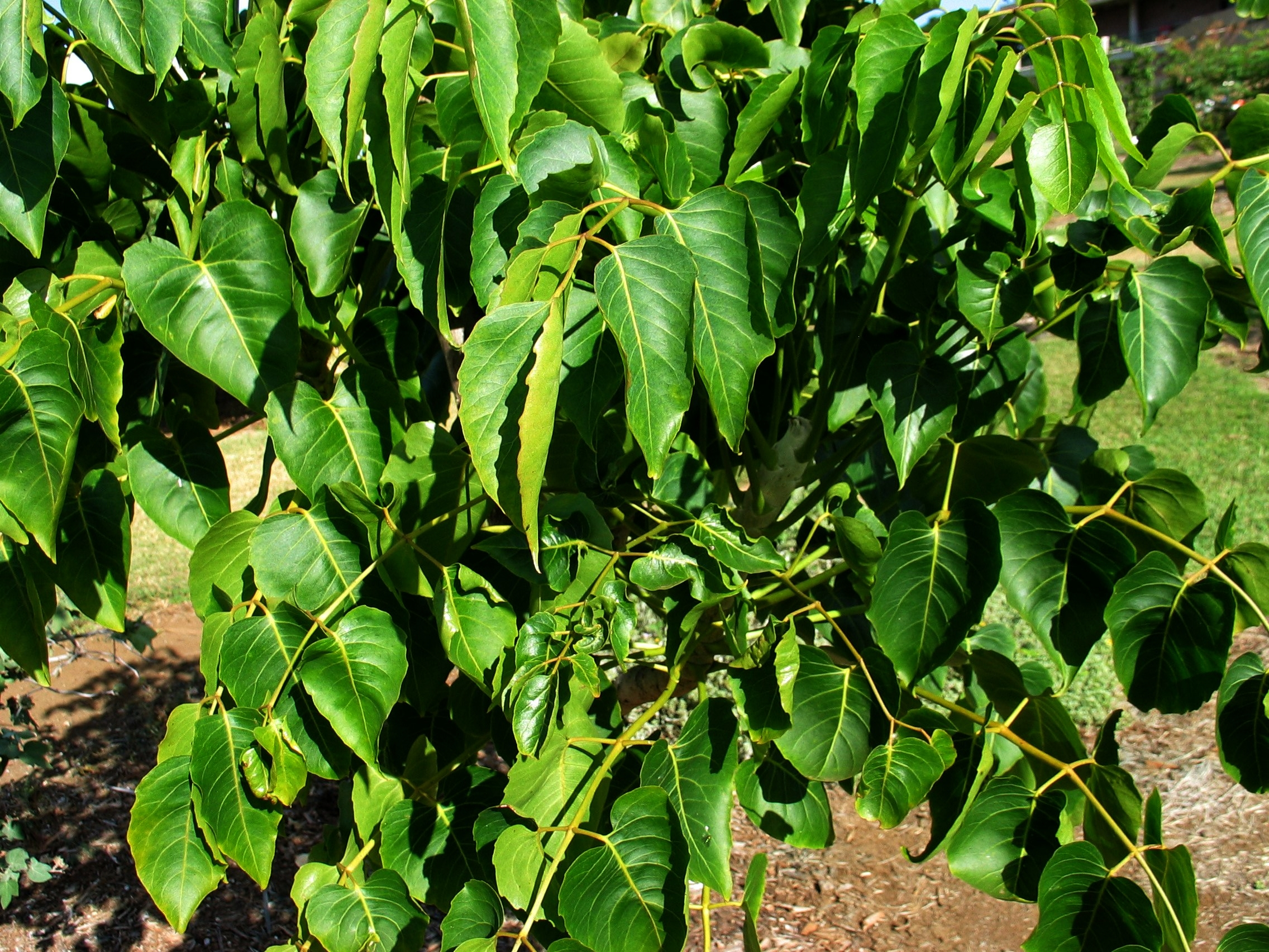 [syn. Reynoldsia sandwicensis] ʻOhe makai or Hawaiian reynoldsia Araliaceae Endemic Oʻahu (Cutlivated) NPH00001